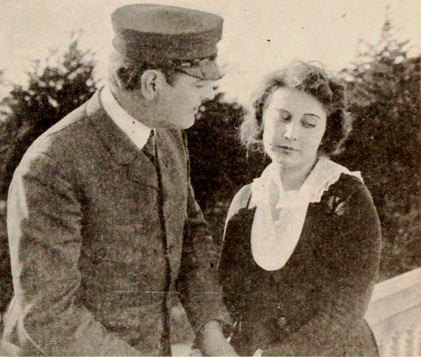 Still from the American drama film The Kaiser's Shadow (1918) with Thurston Hall and Dorothy Dalton, on page 39 of the July 20, 1918 Exhibitors Herald.